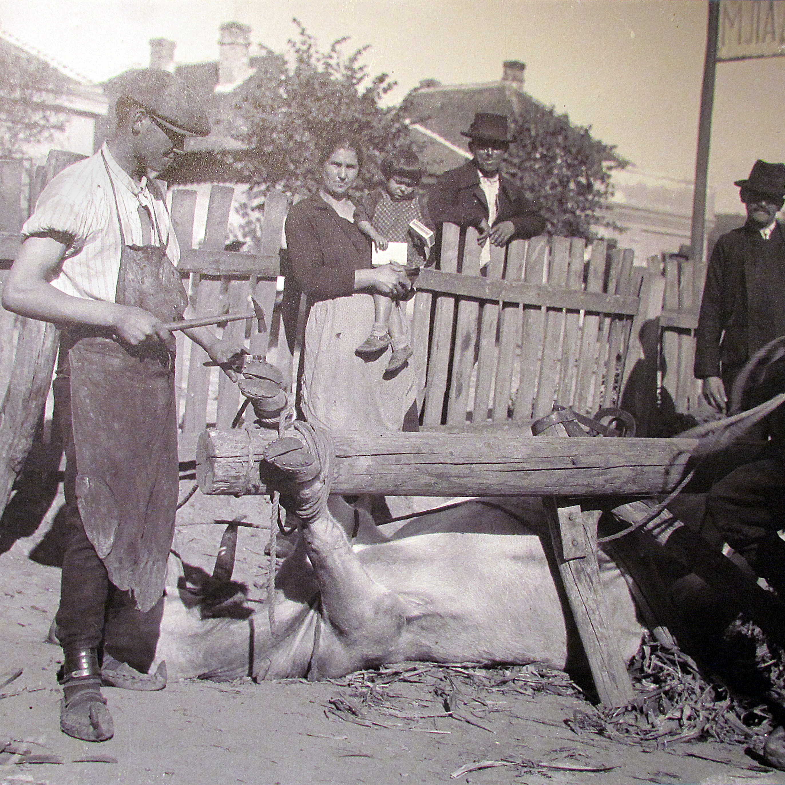 Serbian farrier 1927